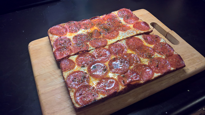 Detroit Style Pizza from Calphalon Bread Pans